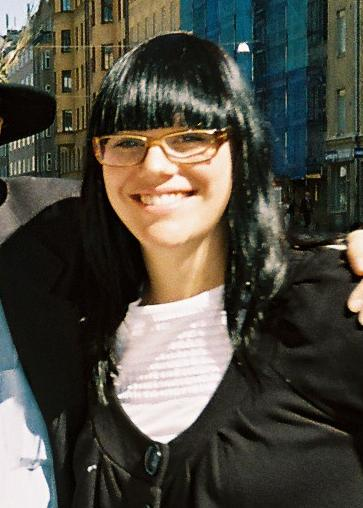 Swedish radio personality Maria Ridderstedt, as released by image owner FamSACPlace: Folkungagatan 57, Stockholm, Sweden